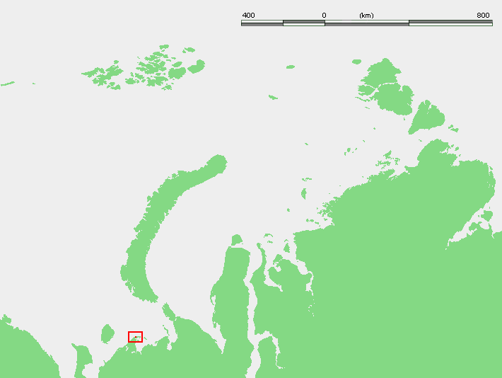 Location of Khodovarikha in the Barents Sea shores.